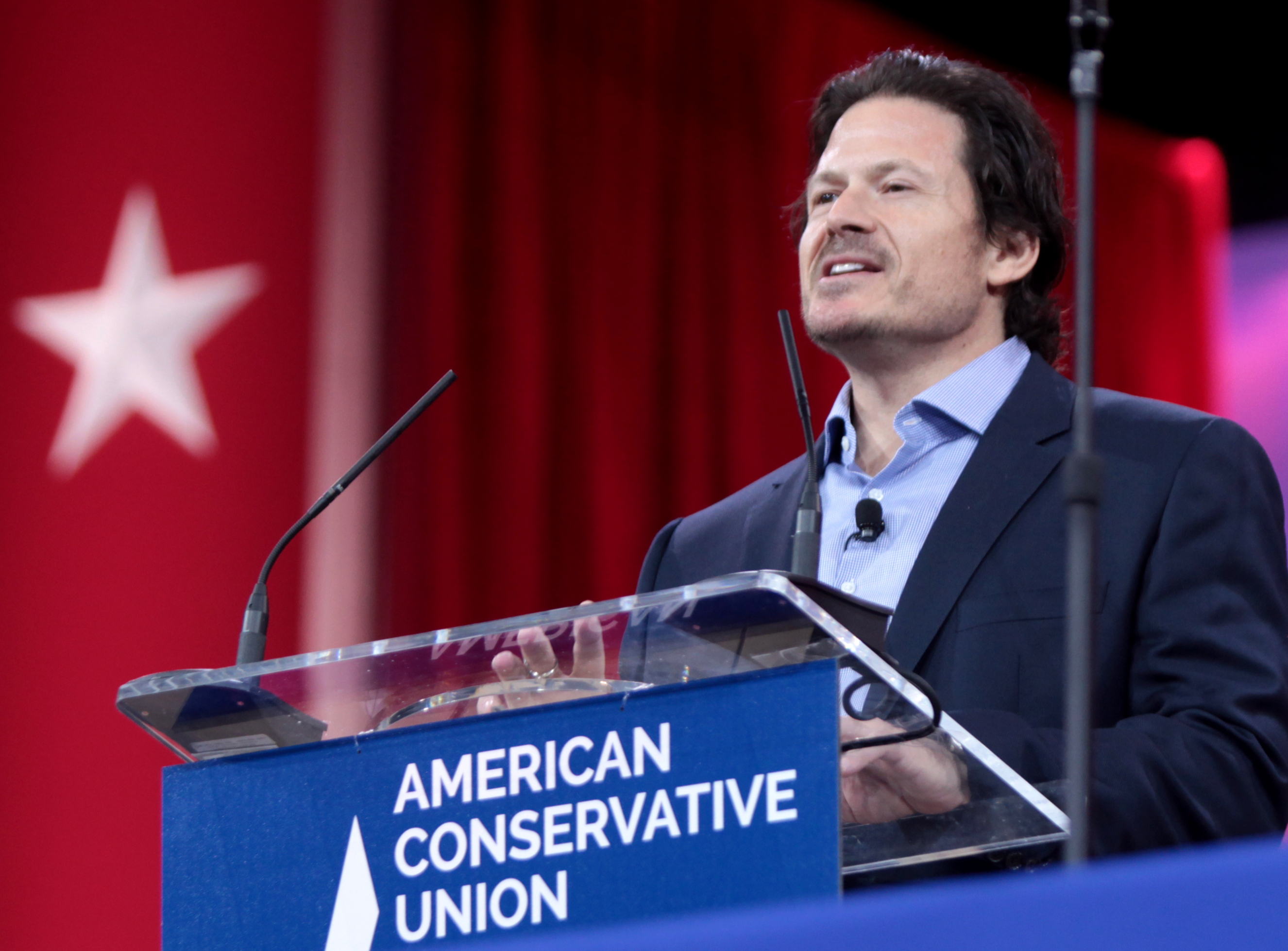 Larry Solov speaking at the 2015 Conservative Political Action Conference (CPAC) in National Harbor, Maryland.